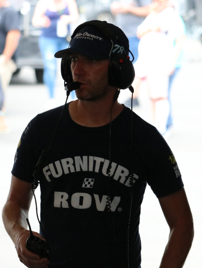 Cole Pearn in 2018 at Richmond Raceway